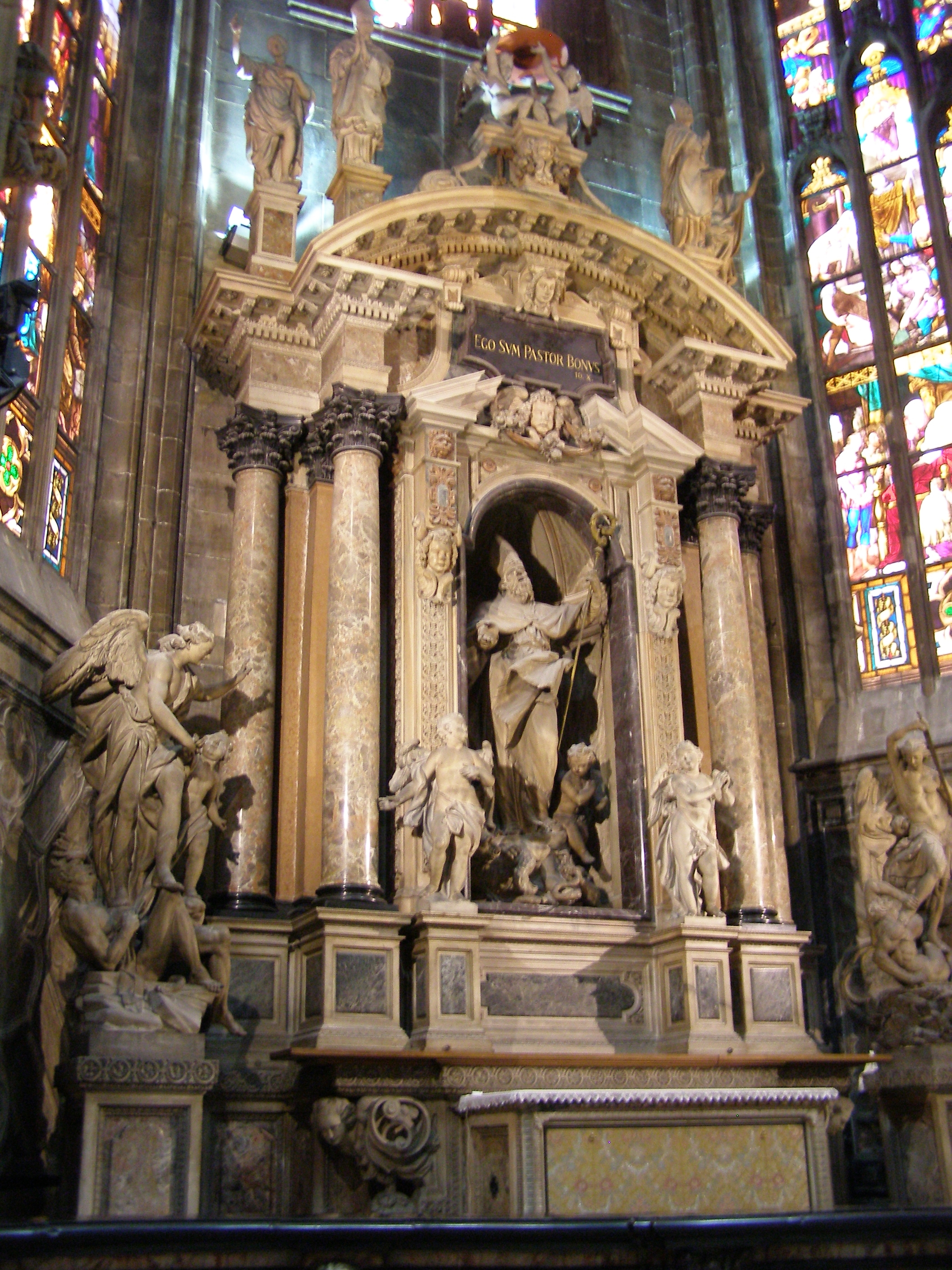 Milano - cathedral - chapel of St. John the Good